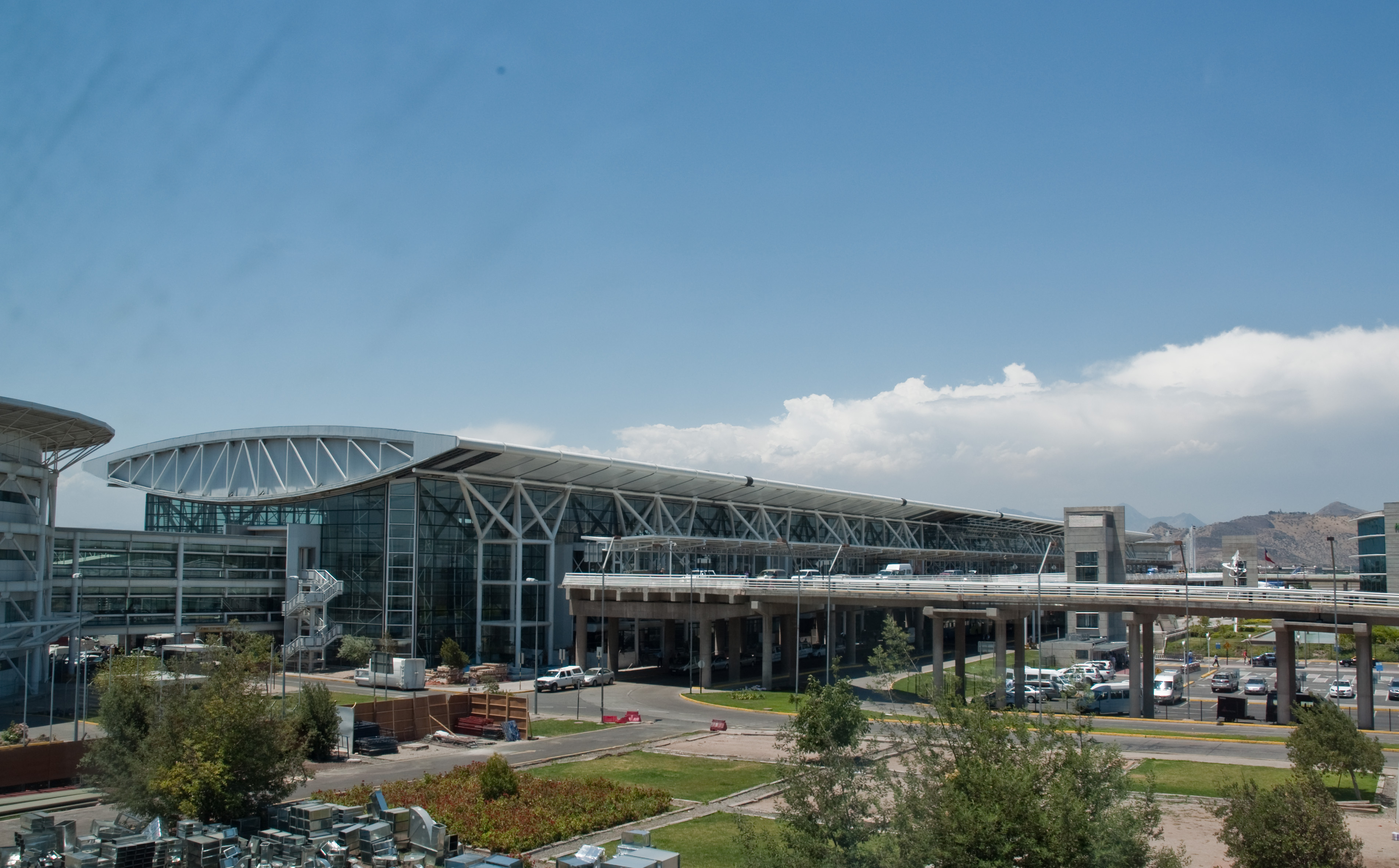 Santiago Airport terminal building, Dec. 2010